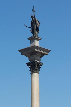 Monument to king Sigismund III of Poland. Warsaw